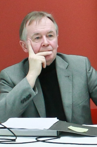 Toni Stooss, Director of the Museum der Moderne Salzburg (since 2005)